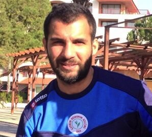 Engin Baytar Rizespor antrenmanında